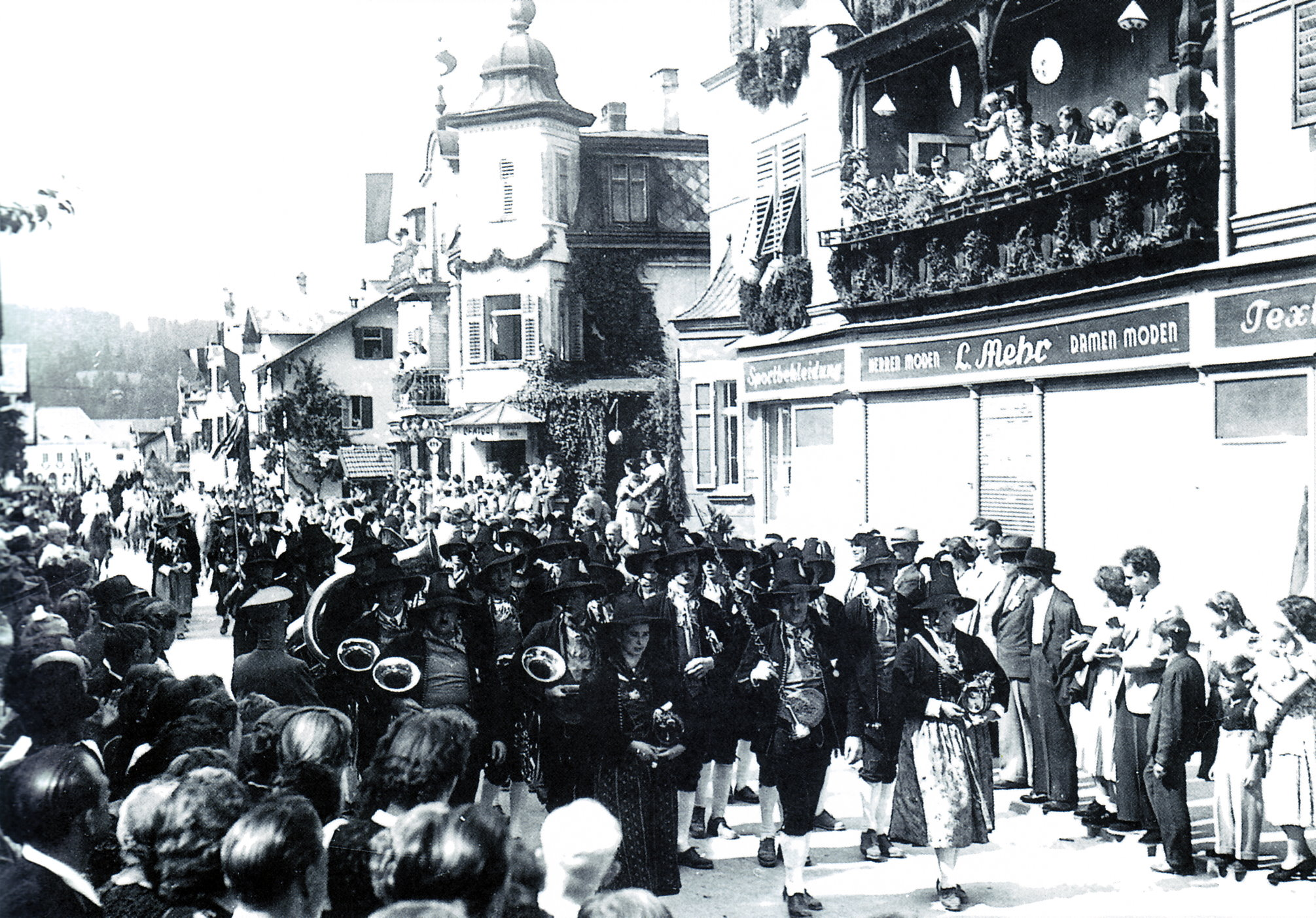 The great festival of grant privileges of the town Wörgl, Tyrol, Austria in 1951.